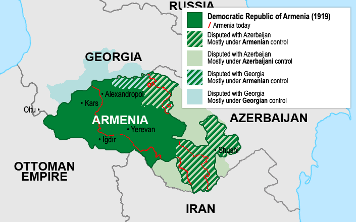 Democratic Republic of Armenia